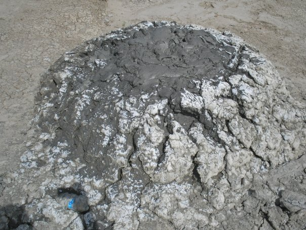 A mud volcano from Devil's Woodyard